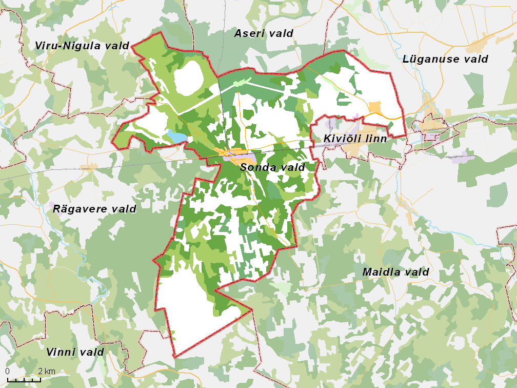 Map of municipality in Estonia